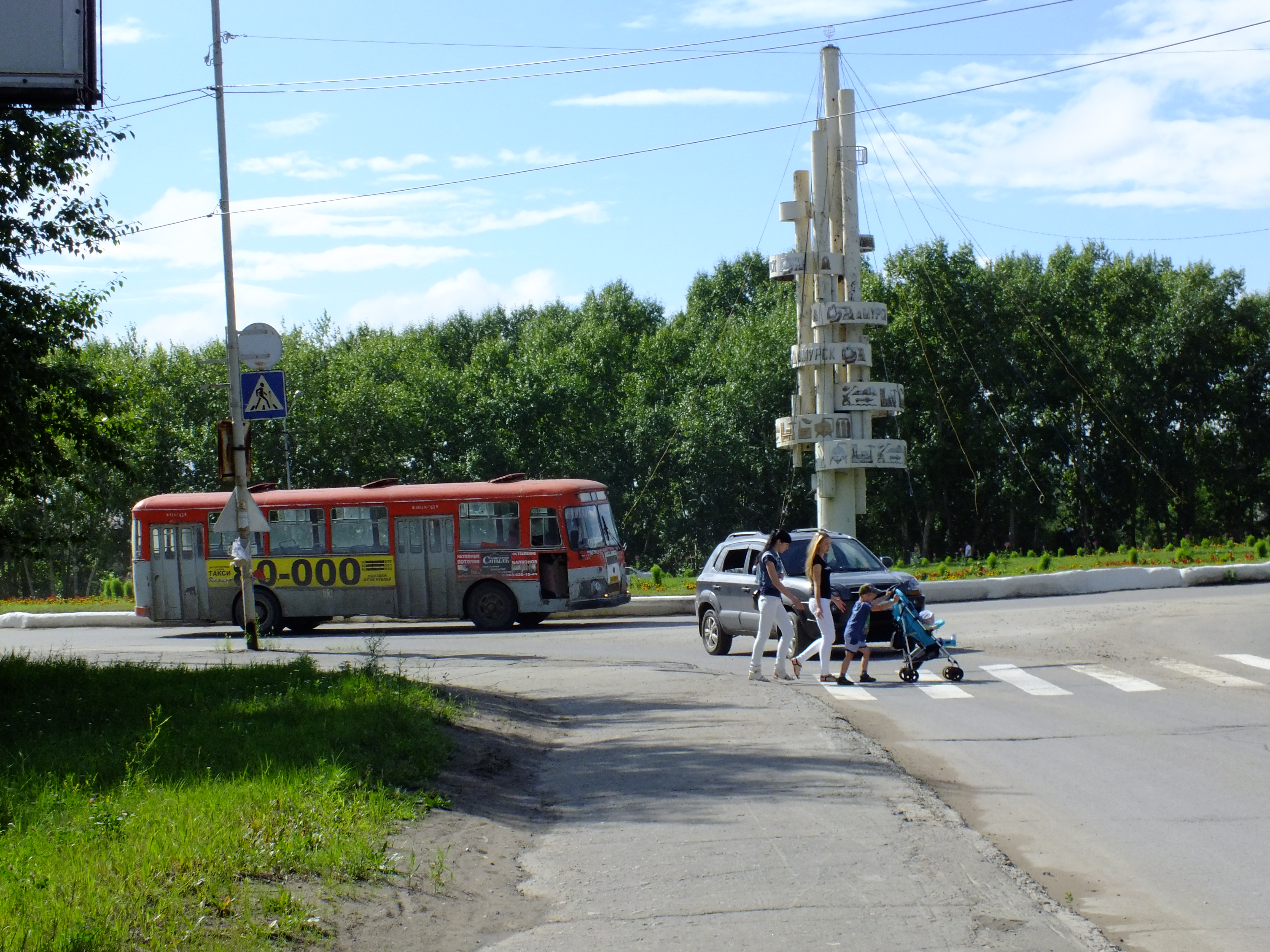 Amursk